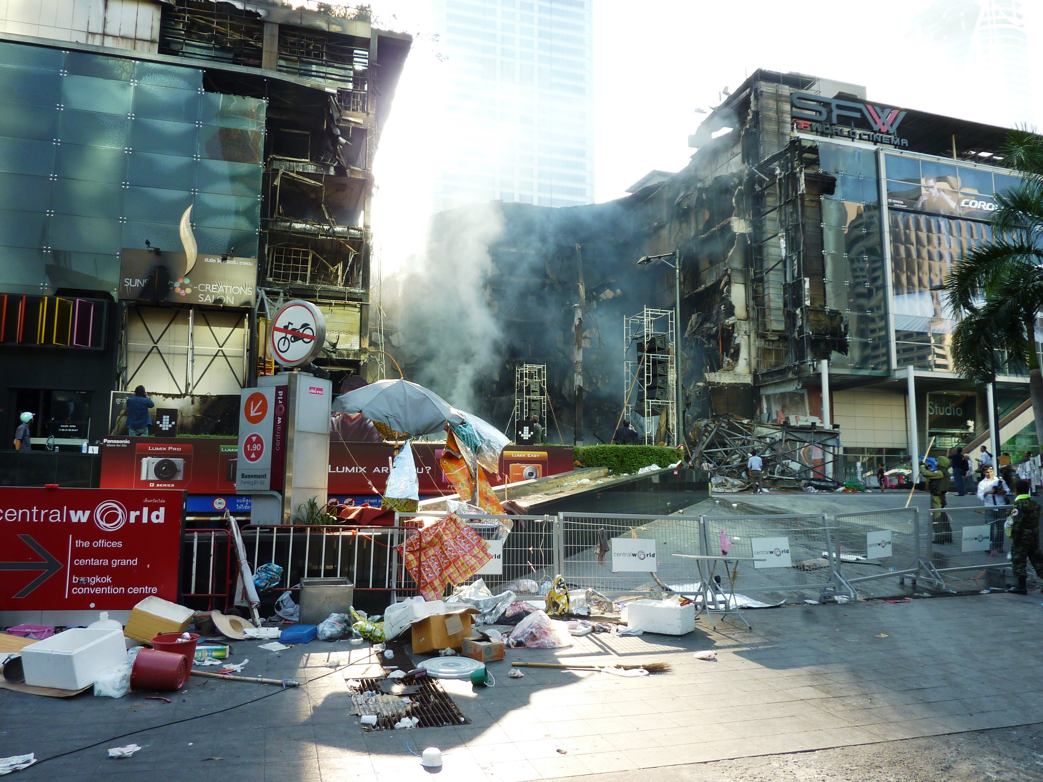 The redshirts have gone from Rajprasong, Bangkok, Thailand